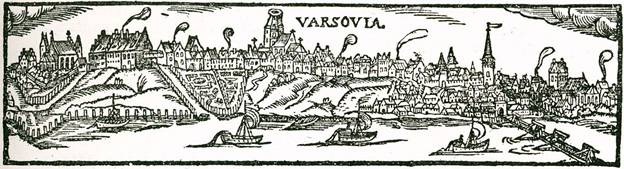 View of Warsaw after 1573, the oldest view